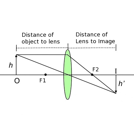 Ray diagram of a single convex lens and one object, showing focal points and object to lens and object to image distances.